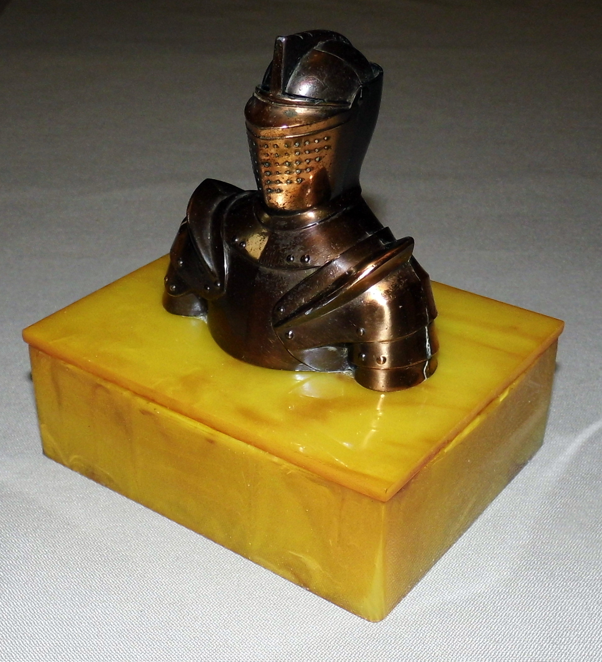 Vintage Negbaur-N.Y. Cigarette Lighter and Cigarette Holder, Knight-Shaped Metal Lighter and Catalin Plastic Cigarette Holder